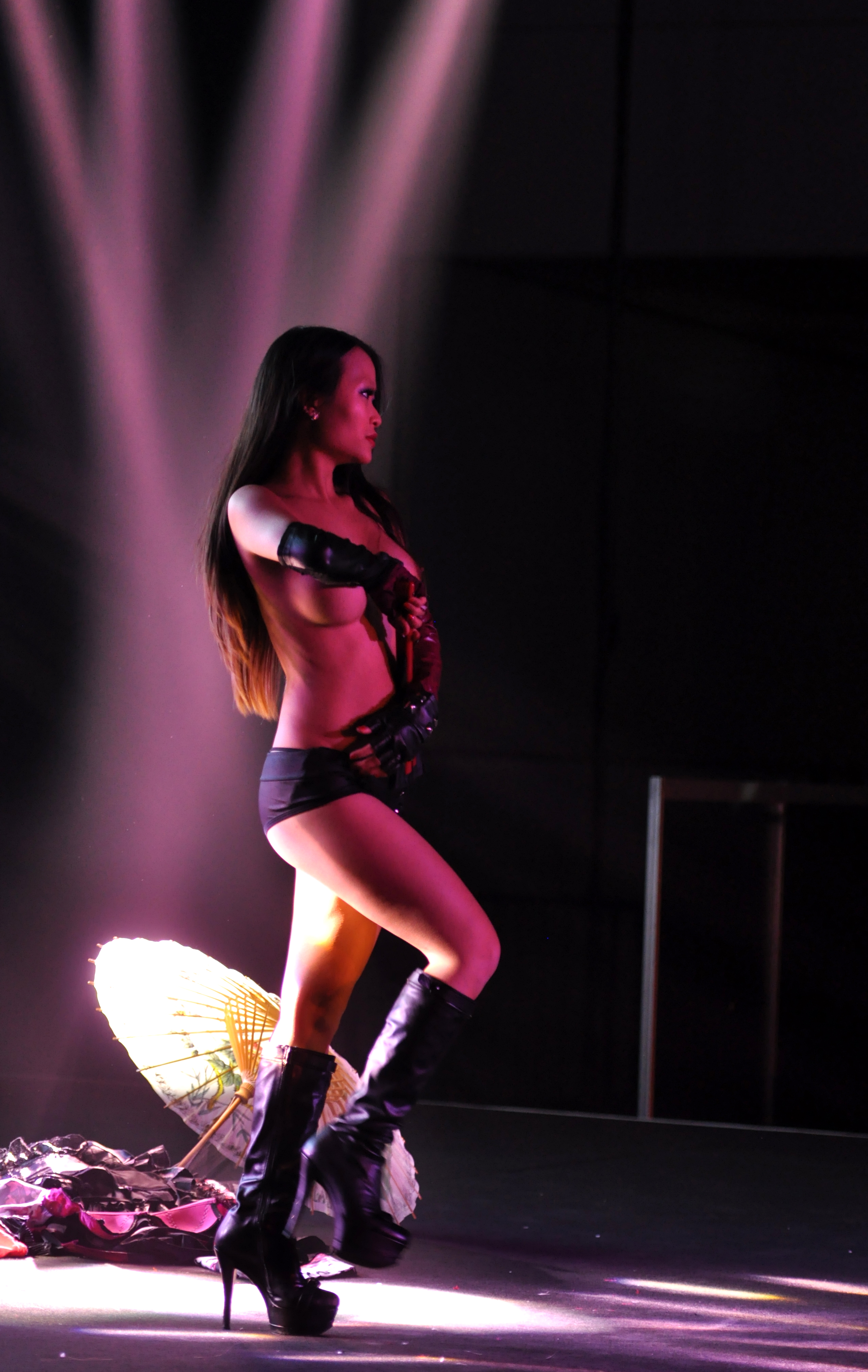 At the Venus 2014, Berlin